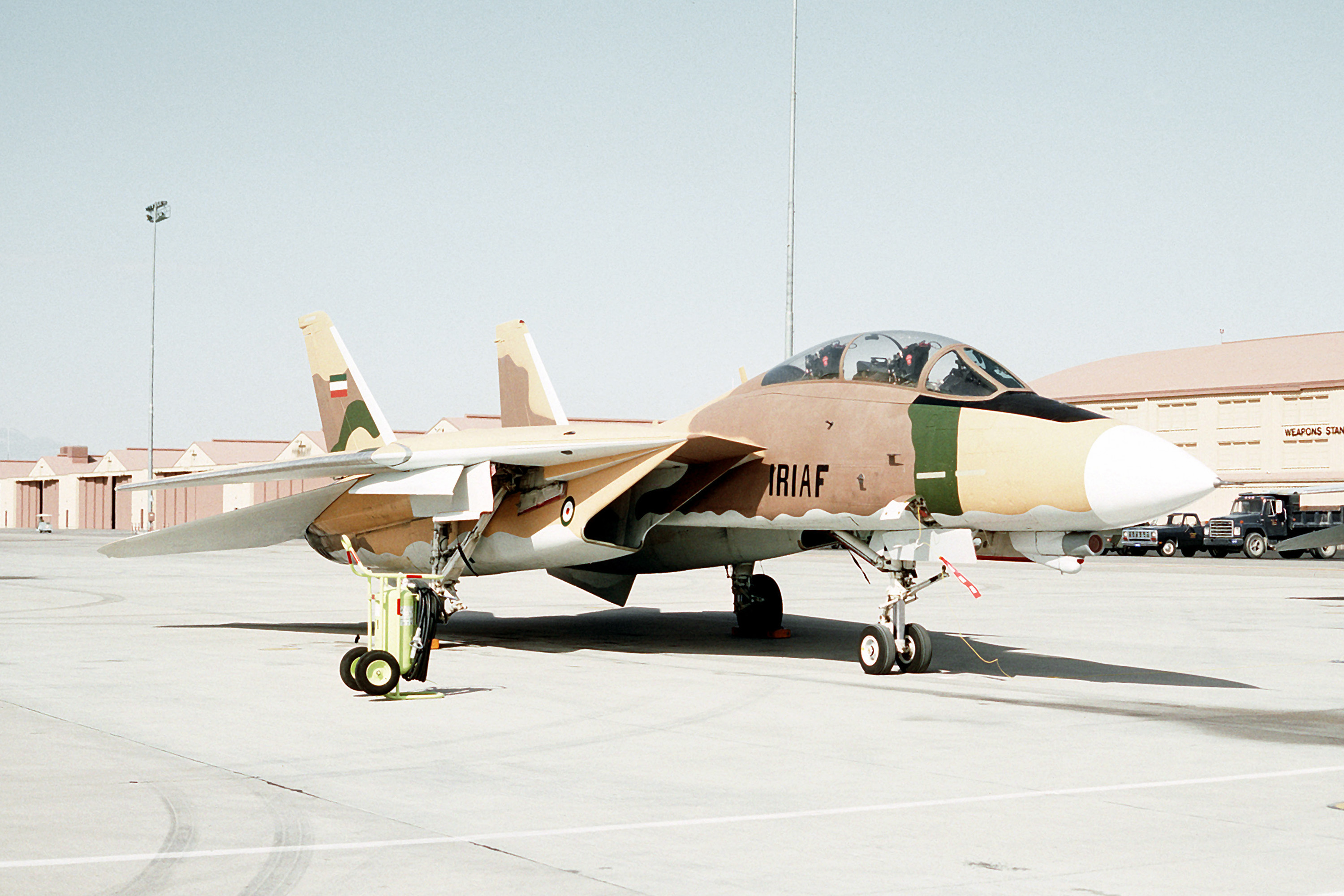 An F-14A TOMCAT fighter aircraft from the U.S. Navy "Top Gun" Fighter Weapons School, San Diego, painted like an Iranian fighter for adversary training, makes a visit to the U.S. Air Force Fighter Weapons School. Location: NELLIS AIR FORCE BASE, NEVADA (NV) UNITED STATES OF AMERICA (USA)